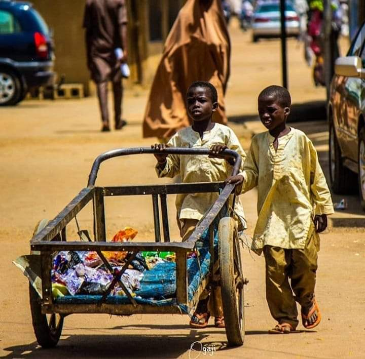 The picture shows two Almajiri who where going out for sales to earn a living. The wheel they are pushing is locally call Push-push and what they have inside is combination of goods they are selling, which includes Chocolate sweet, biscuit, chewing gum and Detergent. What they are doing is all for the daily living. At the moment is the only means of Living they depend on. This Children are most affected with hunger.